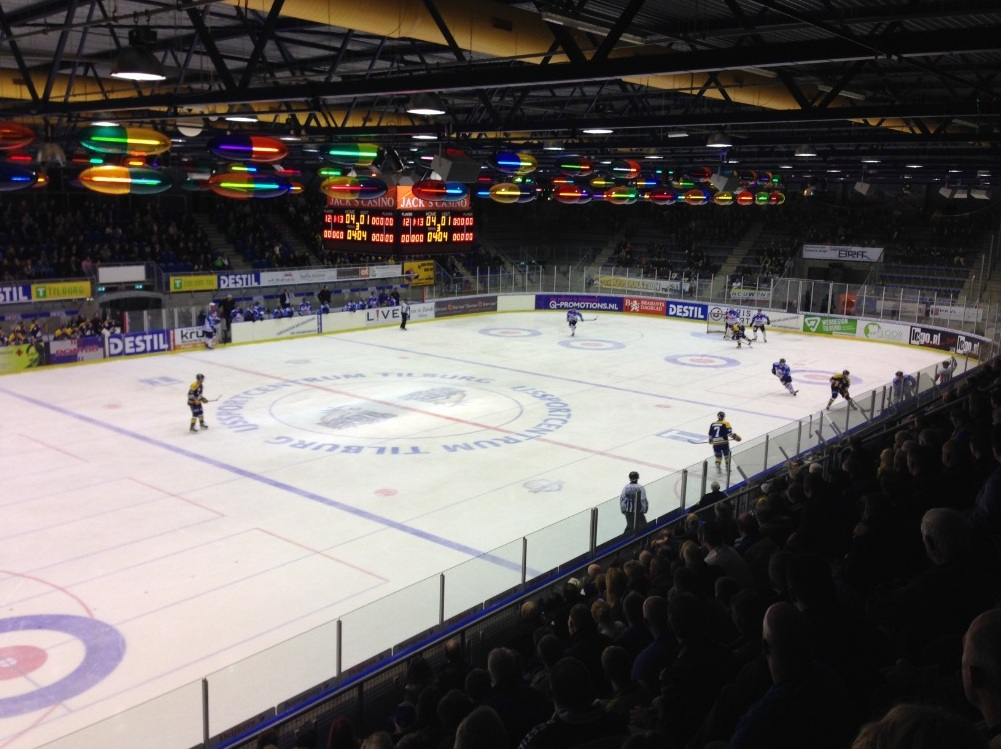 Stappegoor Tilburg